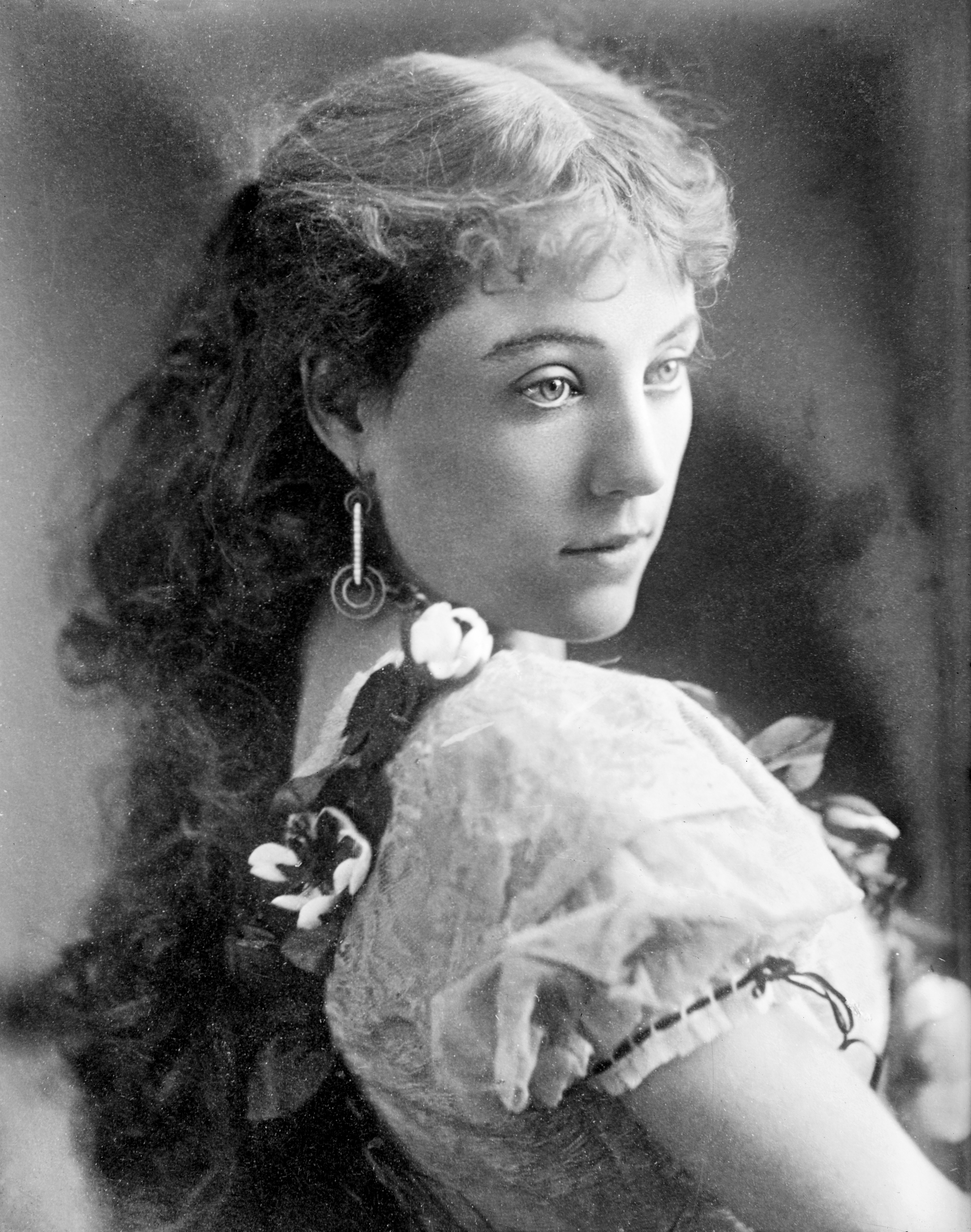 Photograph of actress Clara Morris as Camille